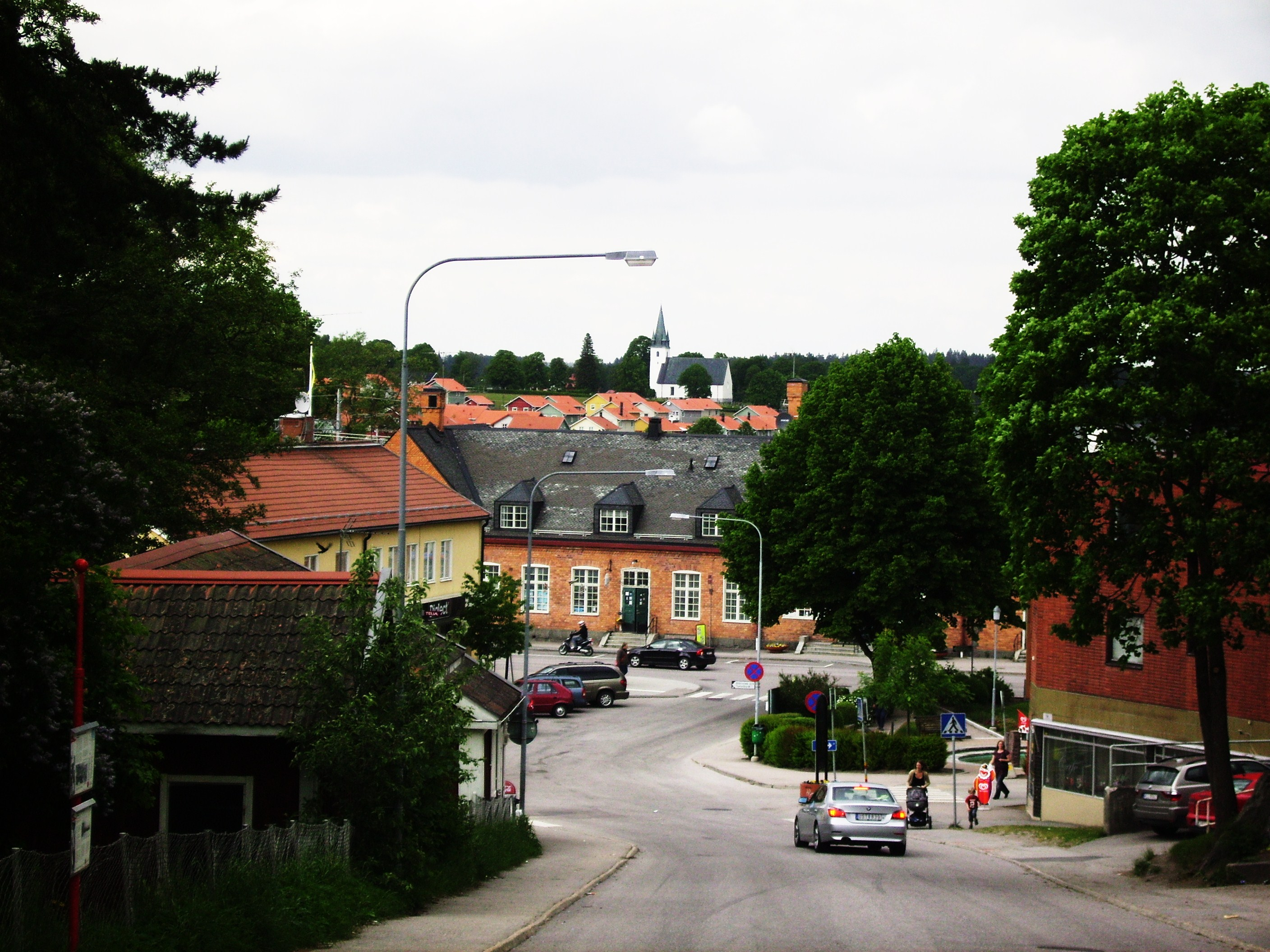 Picture of Gnesta